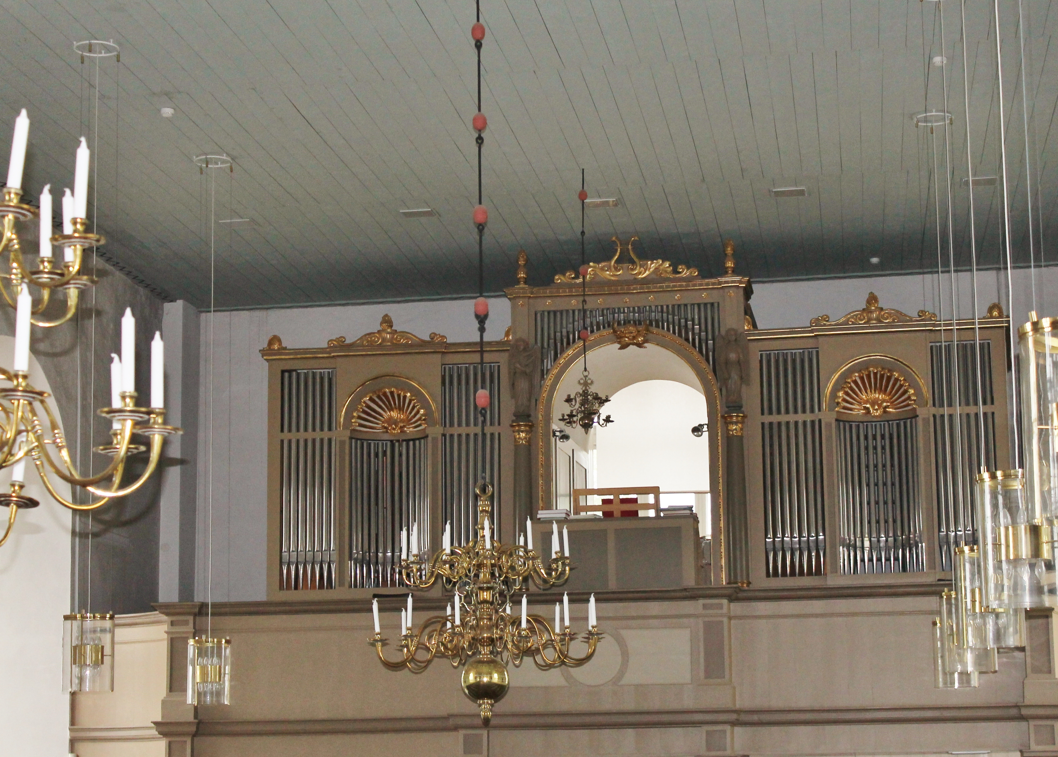 Fridlevstads church.Organ.